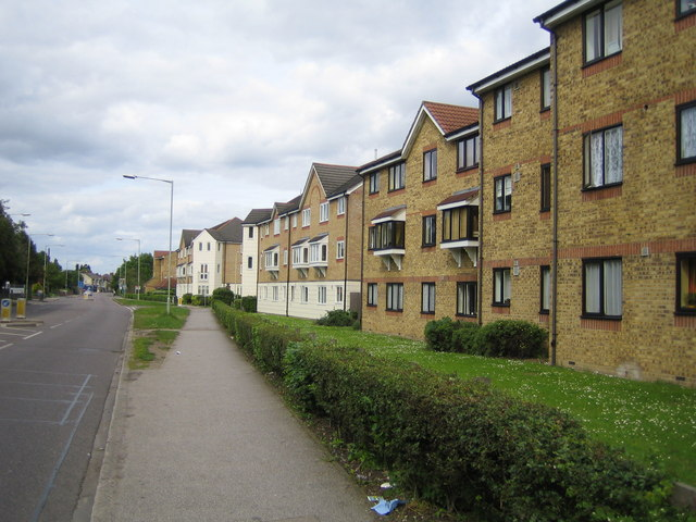 Watford: Tolpits Lane. This housing was built in the 1990s on the site of the former Scammell lorry factory on Tolpits Lane. The road through the estate is Scammell Way which runs between the two white faced buildings. The Scammell factory existed on the site between 1922 and 1988.